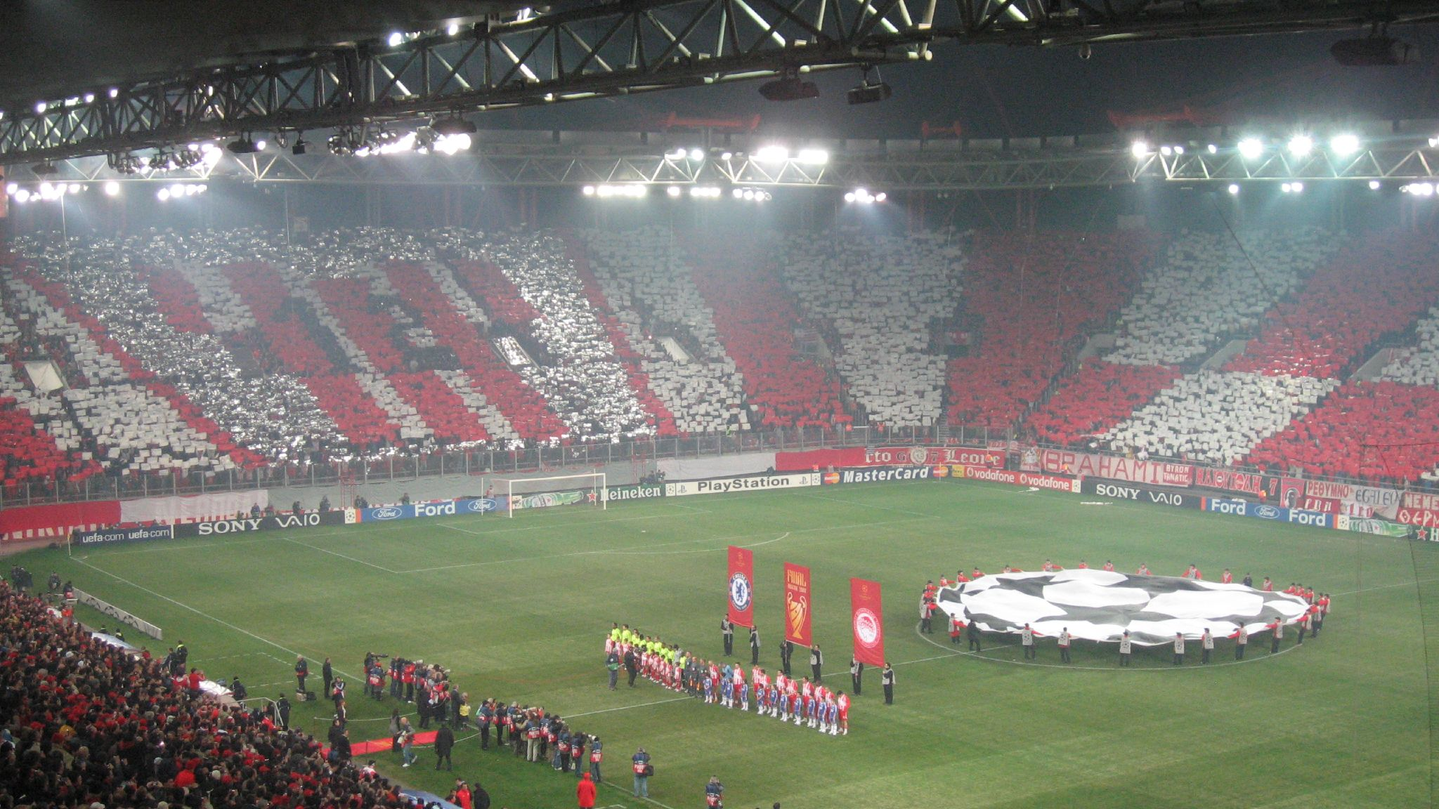 Champiosn League 2007-08 match between Olympiakos and Chelsea FC, in Georgios Karaiskakis Stadium. Result was 0-0.